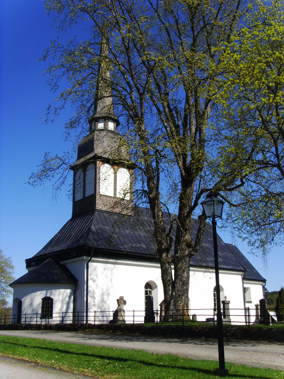 Bredestad church in Aneby, the Highlands of Småland, Sweden.